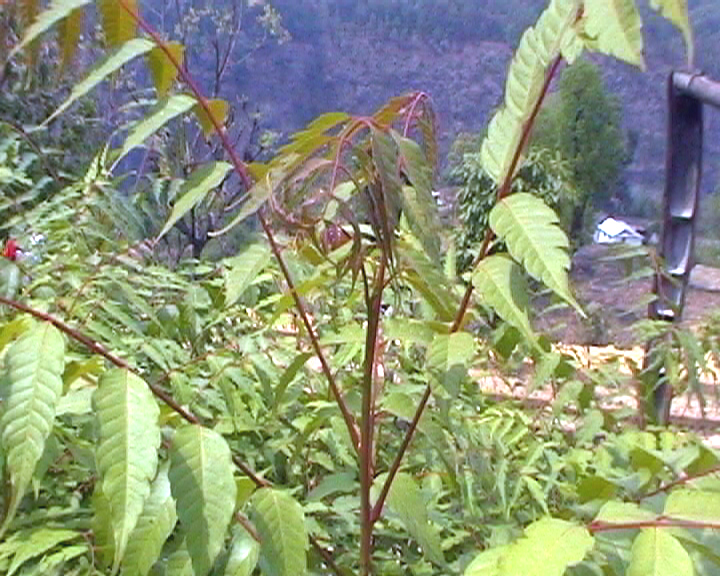 Choerospondias axillaris in Nepal